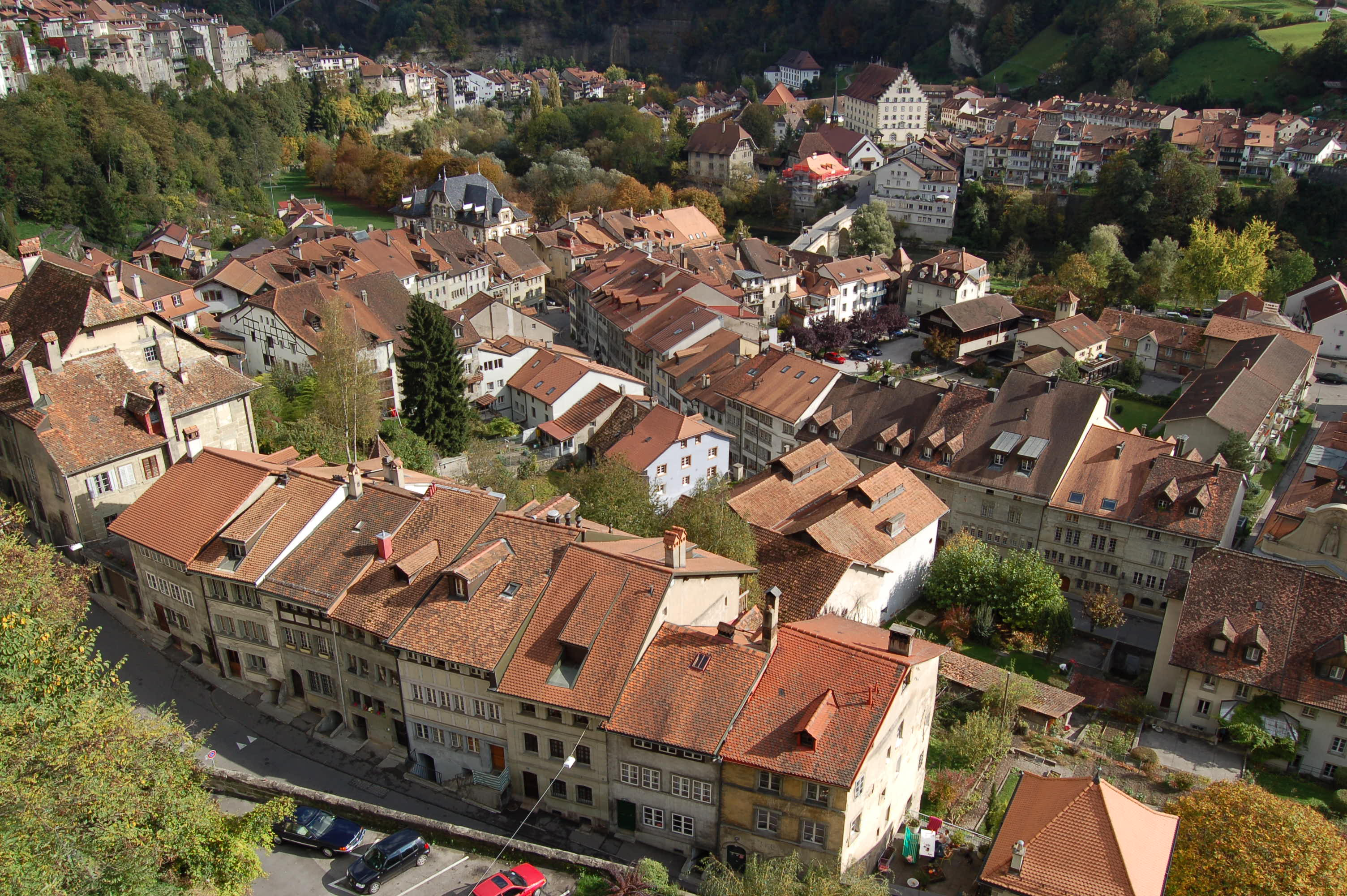 Fribourg, Switzerland